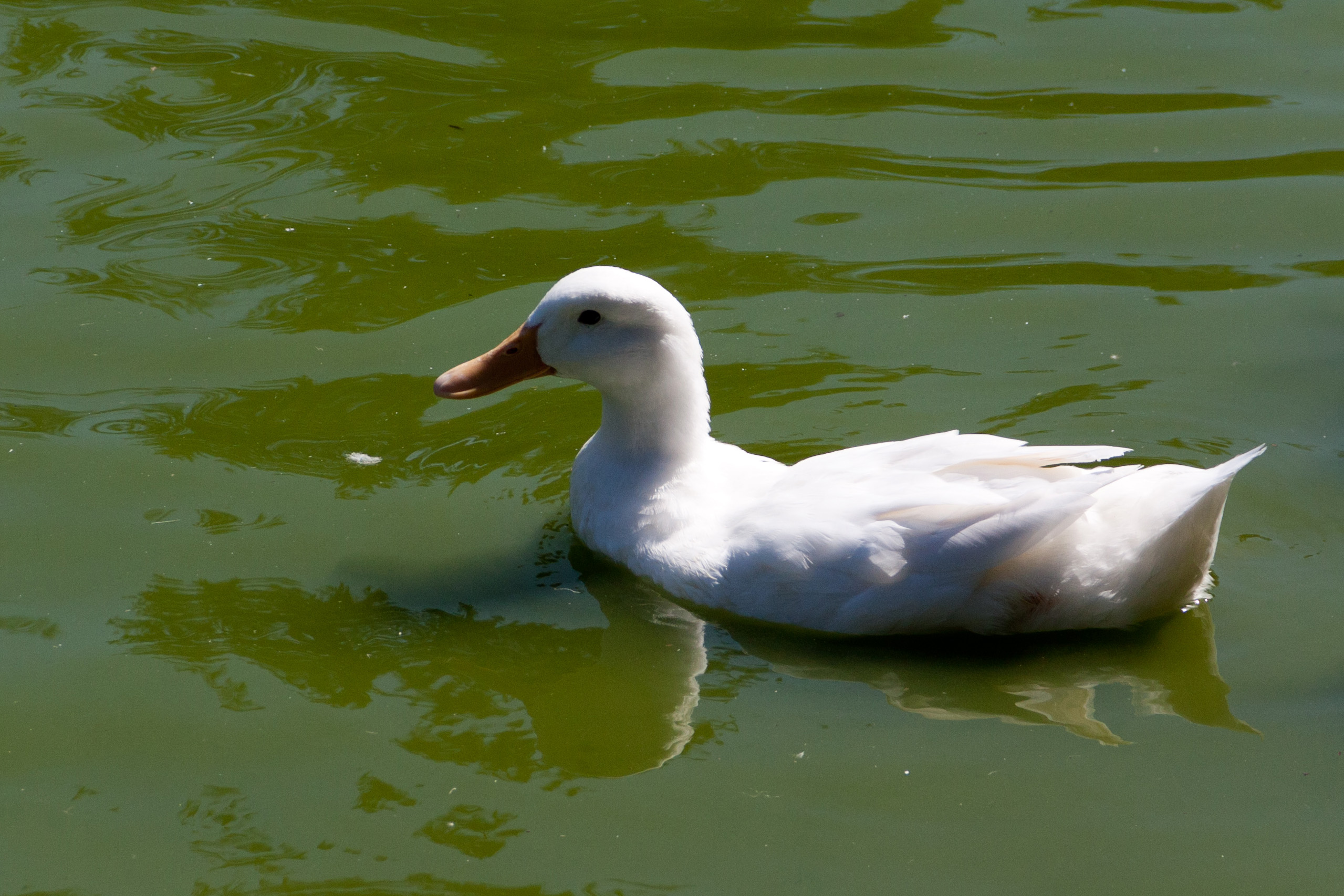 Pekin duck, Agam Hay, Yir'on, Israel